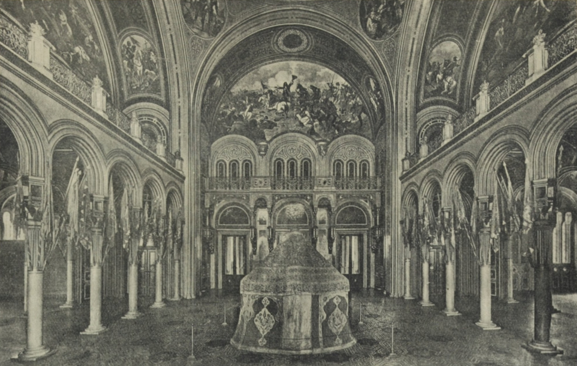 Hall of Fame in the Museum of Military History, Vienna. Oil print process a. 1918.